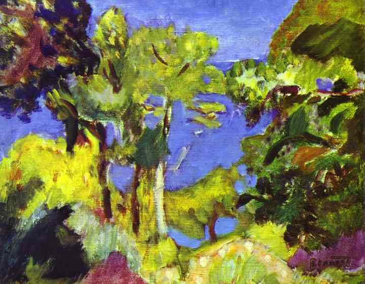 Painting by Pierre Bonnard